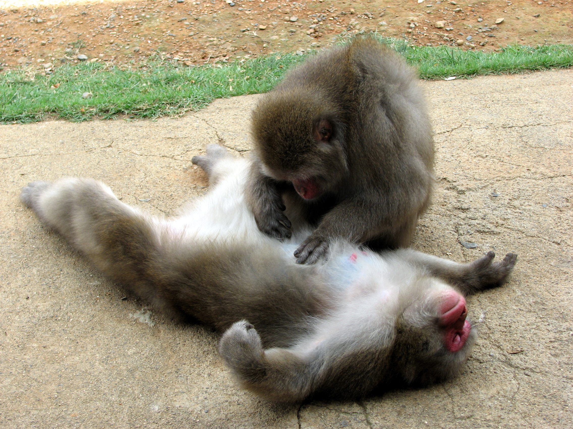 Macaca fuscata in Iwatayama Monkey Park, Japan